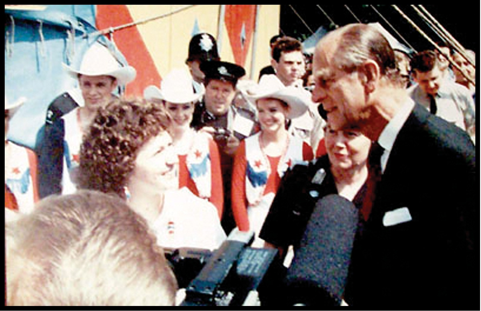 Picture of Peggy Willis-Aarnio and Prince Philip 1987